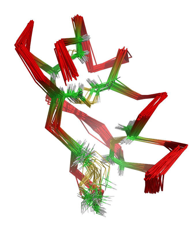 A protein NMR structure of the four-disulfide-bridge scorpion toxin maurotoxin, which inhibits potassium ion channels. The protein backbone is shown in red, the alpha carbons of the eight cysteine residues are shown in green, and the disulfide bridges themselves are shown in yellow. The maurotoxin disulfide bridge connectivity is uncommon among scorpion toxins. Multiple structures are shown to reflect the natural fluctuations in native-state protein structure in solution.